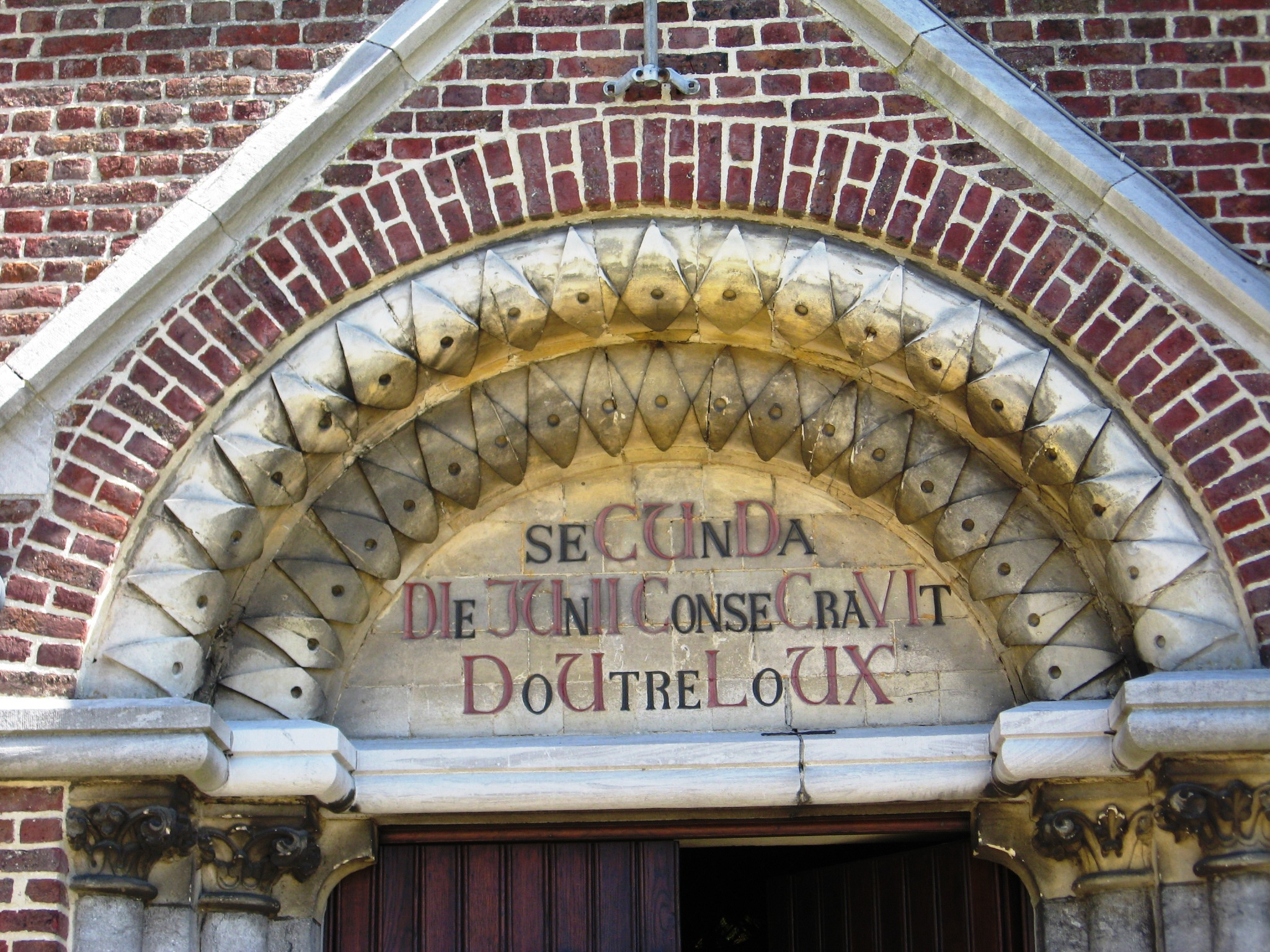 Chronogram above the entrance of the church in Spalbeek, Limburg, Belgium